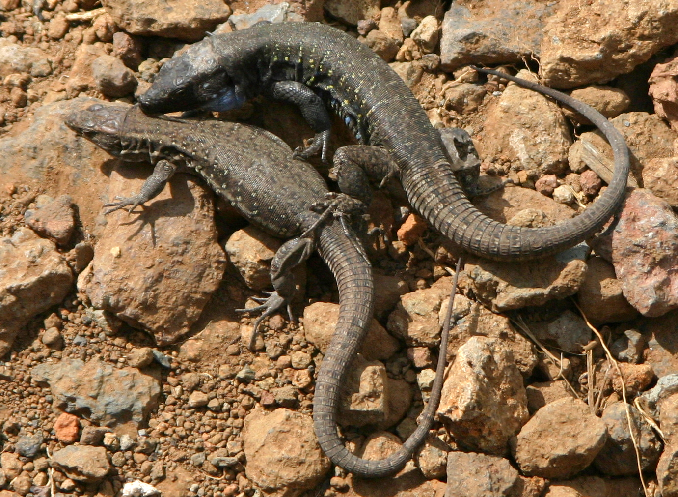 Gallotia galloti palmae pair mating, La Palma, Canary Islands